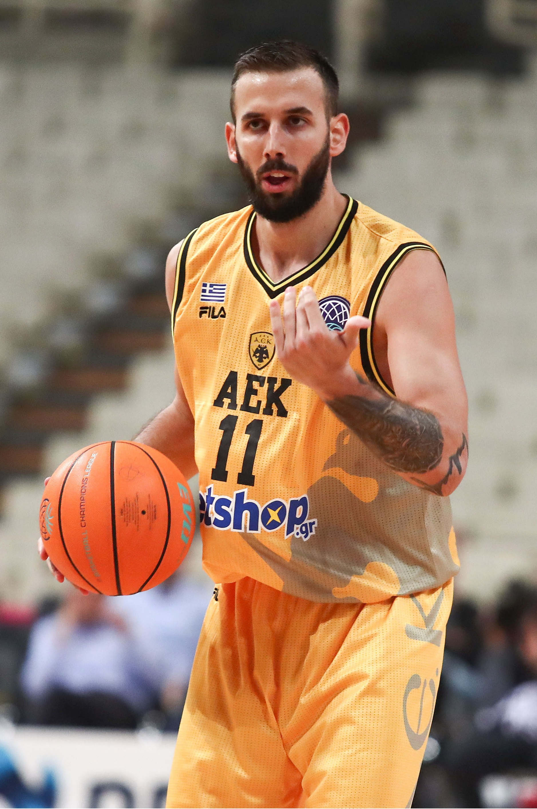 JANKOVIC @ AEK - RASTA VECHTA BCL 2019